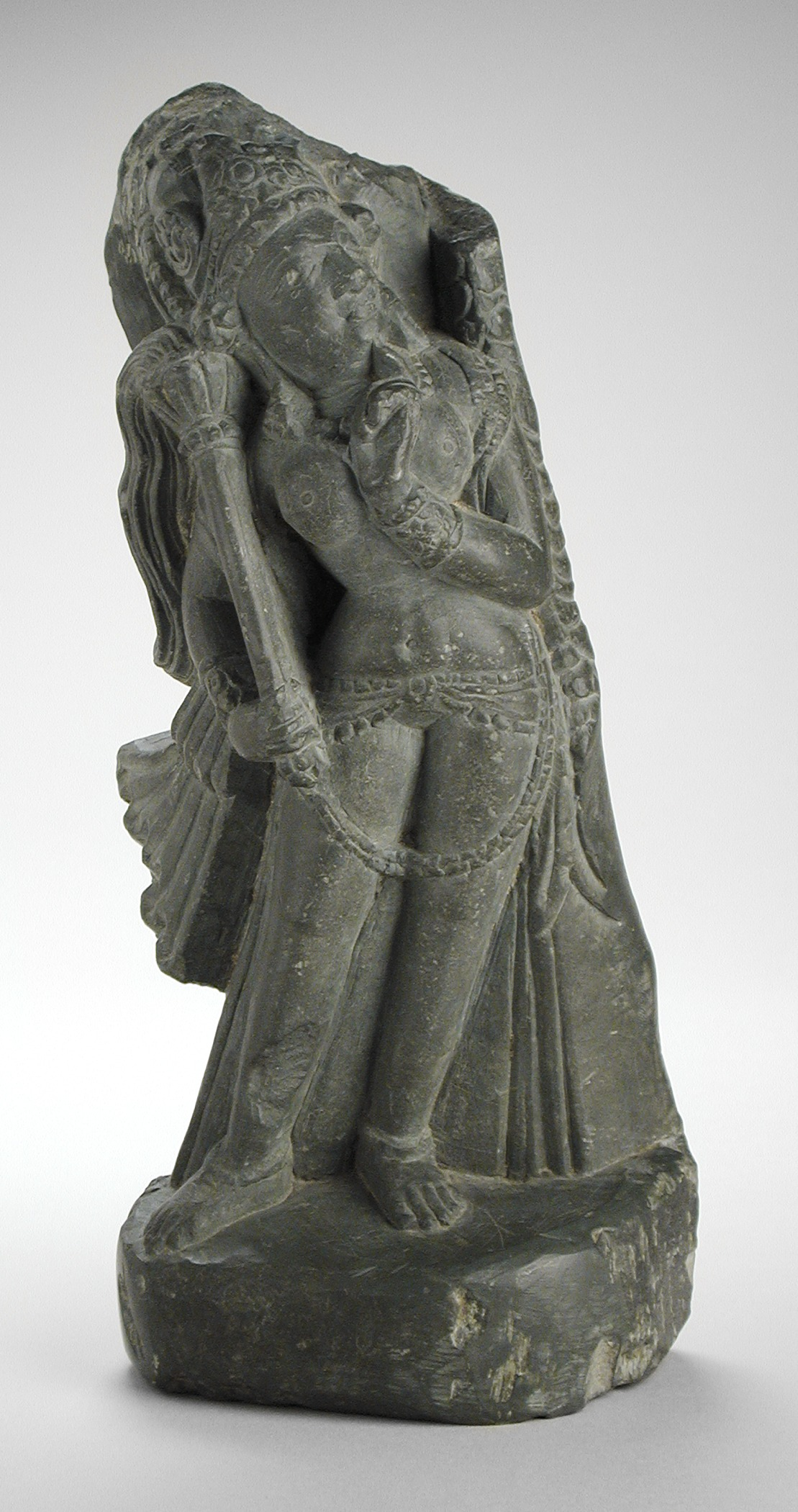 India, Jammu and Kashmir, Kashmir region, circa 900 Sculpture Chlorite schist Purchased with funds provided by The Smart Family Foundation through the generosity of Mr. and Mrs. Edgar G. Richards (M.87.62) South and Southeast Asian Art